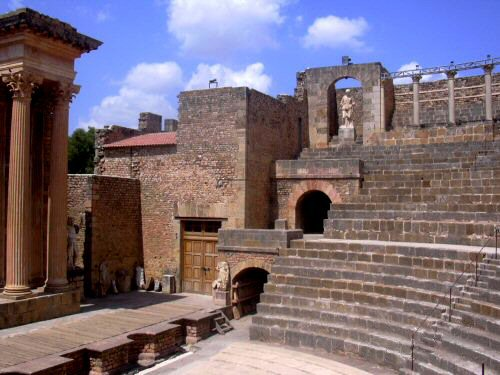 The Ancient Roman theater in Guelma — Algeria. Credits Photographer: GASMI. M. "Source: Own photograph by uploader"